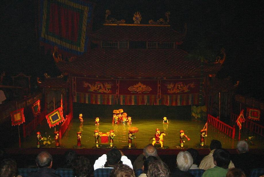 Scene of the Water Puppet Theatre Than Long in Hanoi, Vietnam